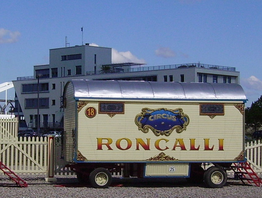 Circus Roncalli (Germany)